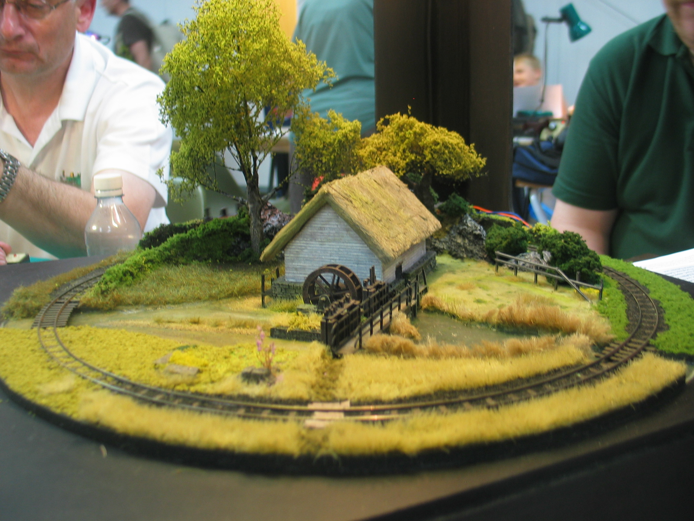 Pizza Layout in Amberley Railway Gala 2007